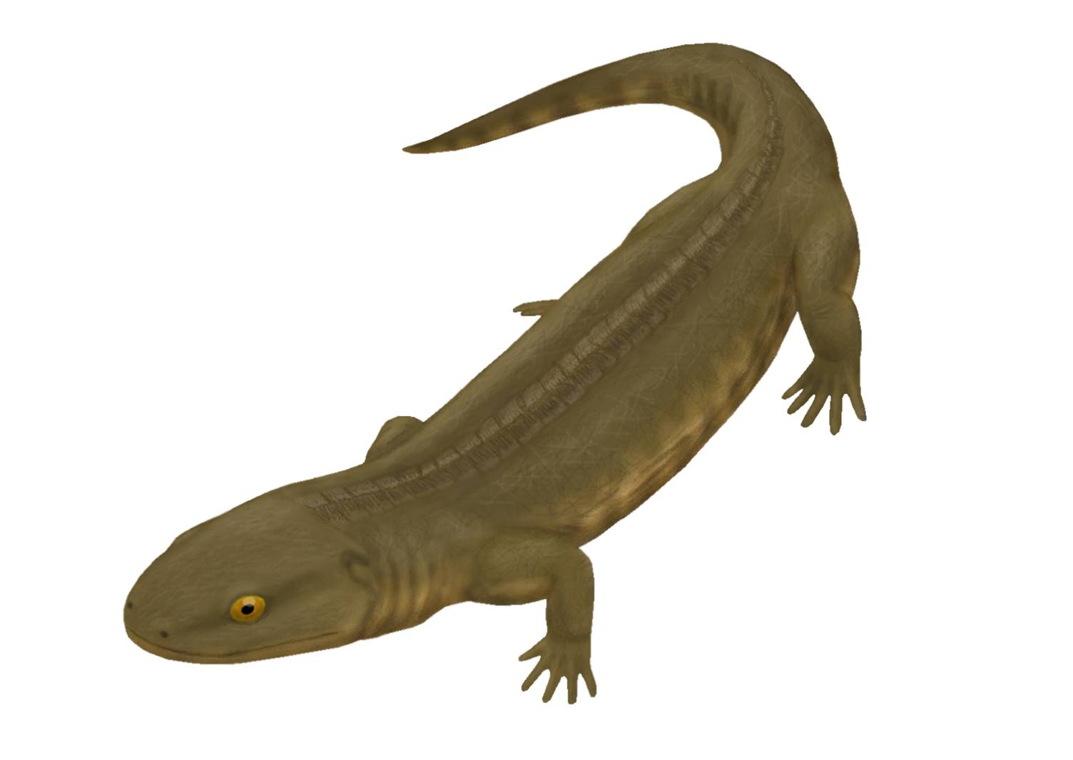 Life restoration of Ariekanerpeton sigalovi. Based on fossil photograph found here from the Tree of Life web project